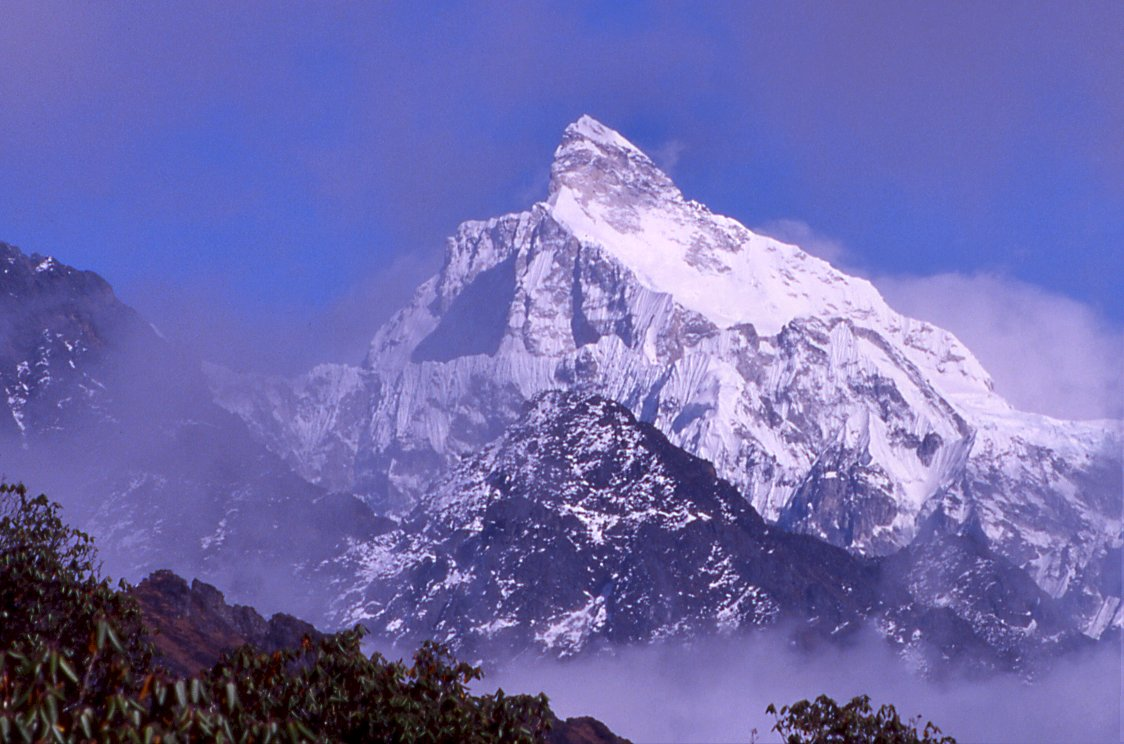 Jannu from the west, from an unnamed pass between Gyabla and Olungchungkola.